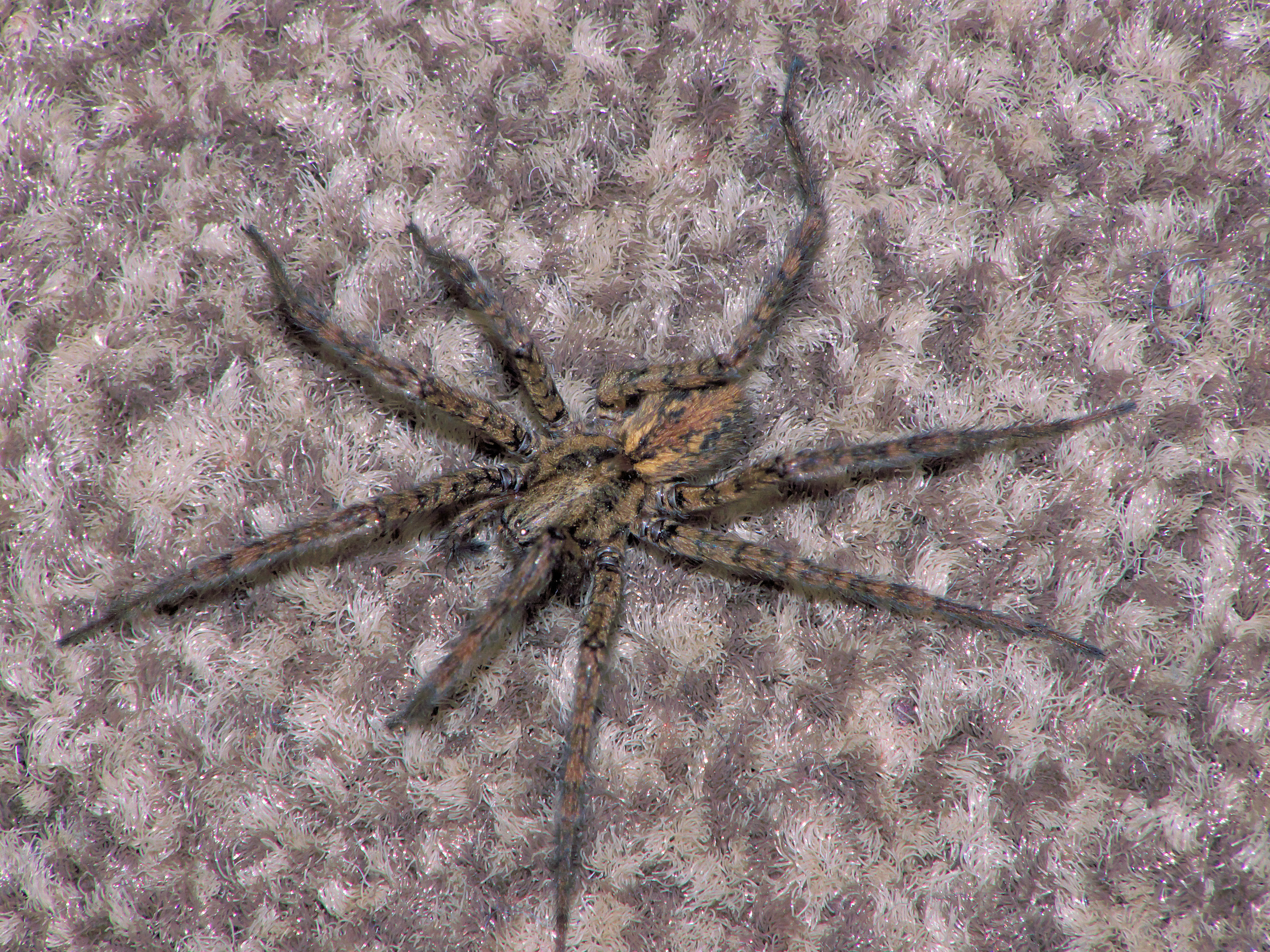 Malthonica ferruginea